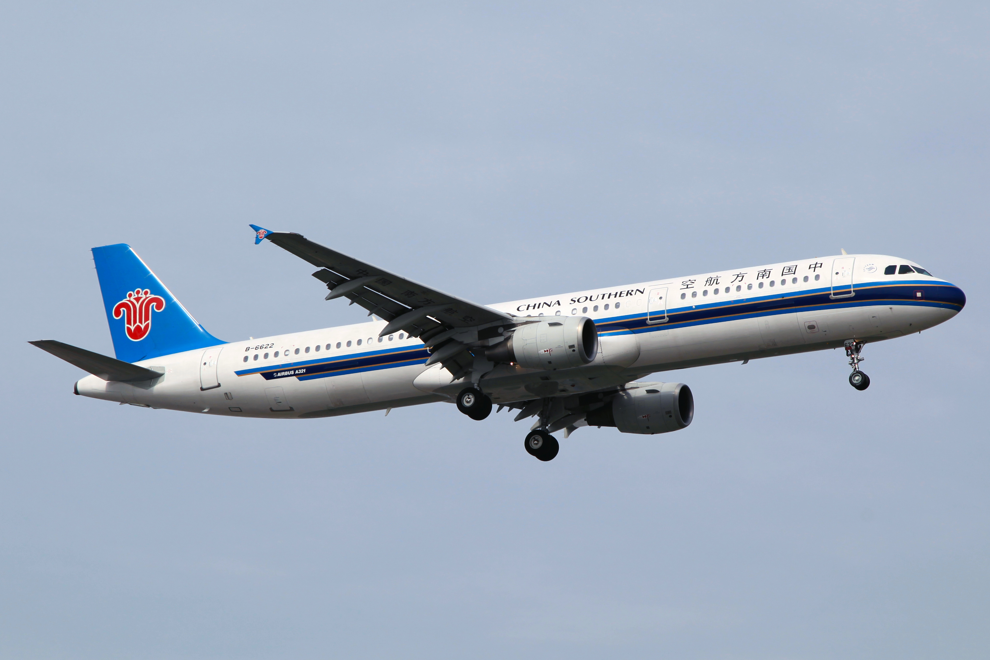 China Southern Airlines Airbus A321-211 B-6622 @ Shanghai Hongqiao International Airport